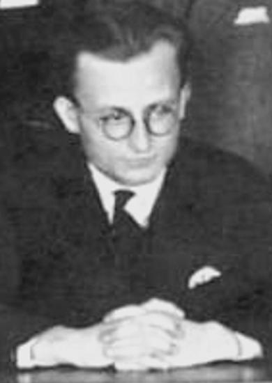 Alexandru Roşca (psychology publisher)